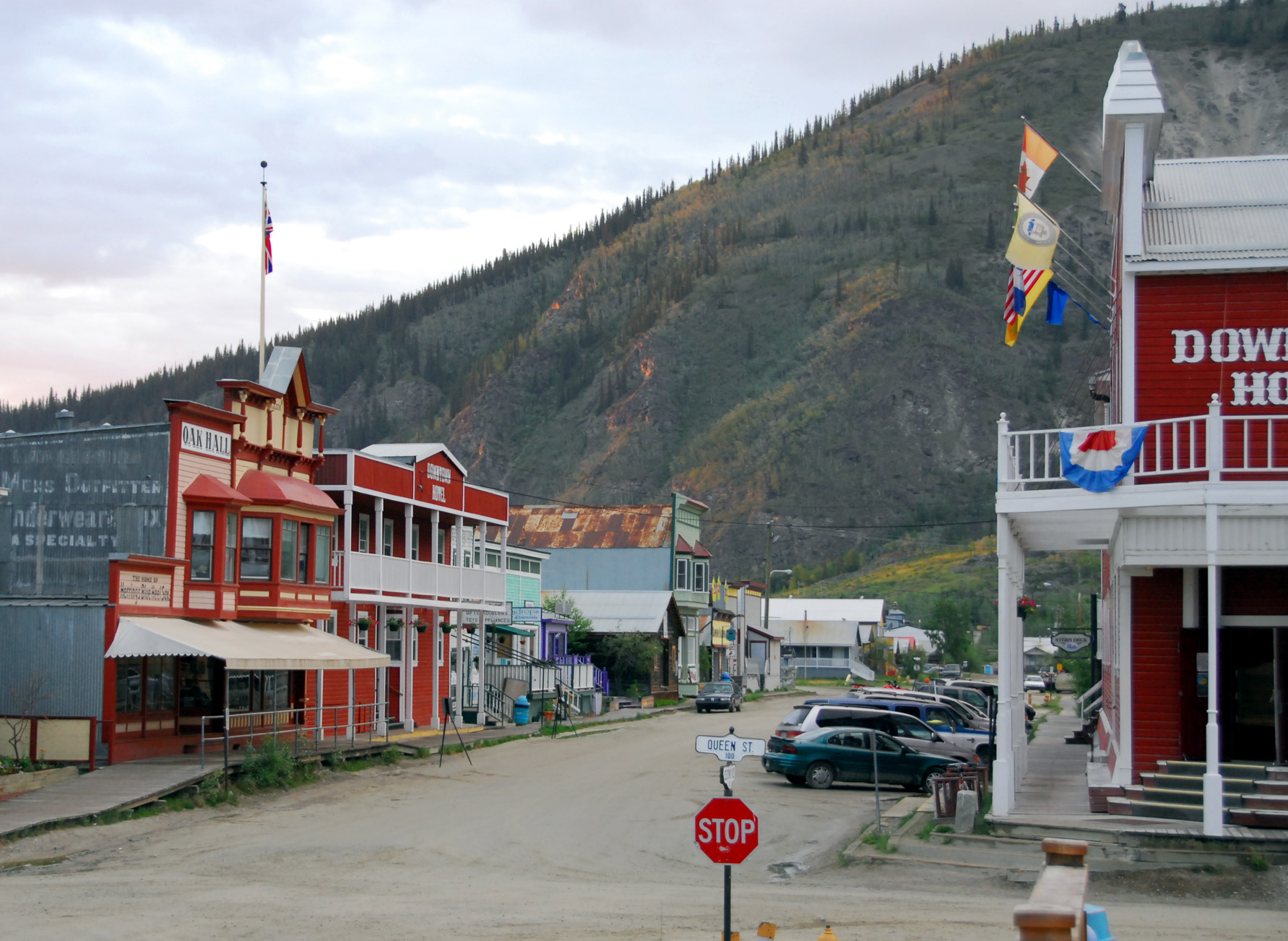 A photo of historic buildings in downtown Dawson City, Yukon, taken at 11pm on June 11, 2007 by Michael Edwards.